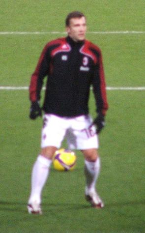 Andriy Shevchenko